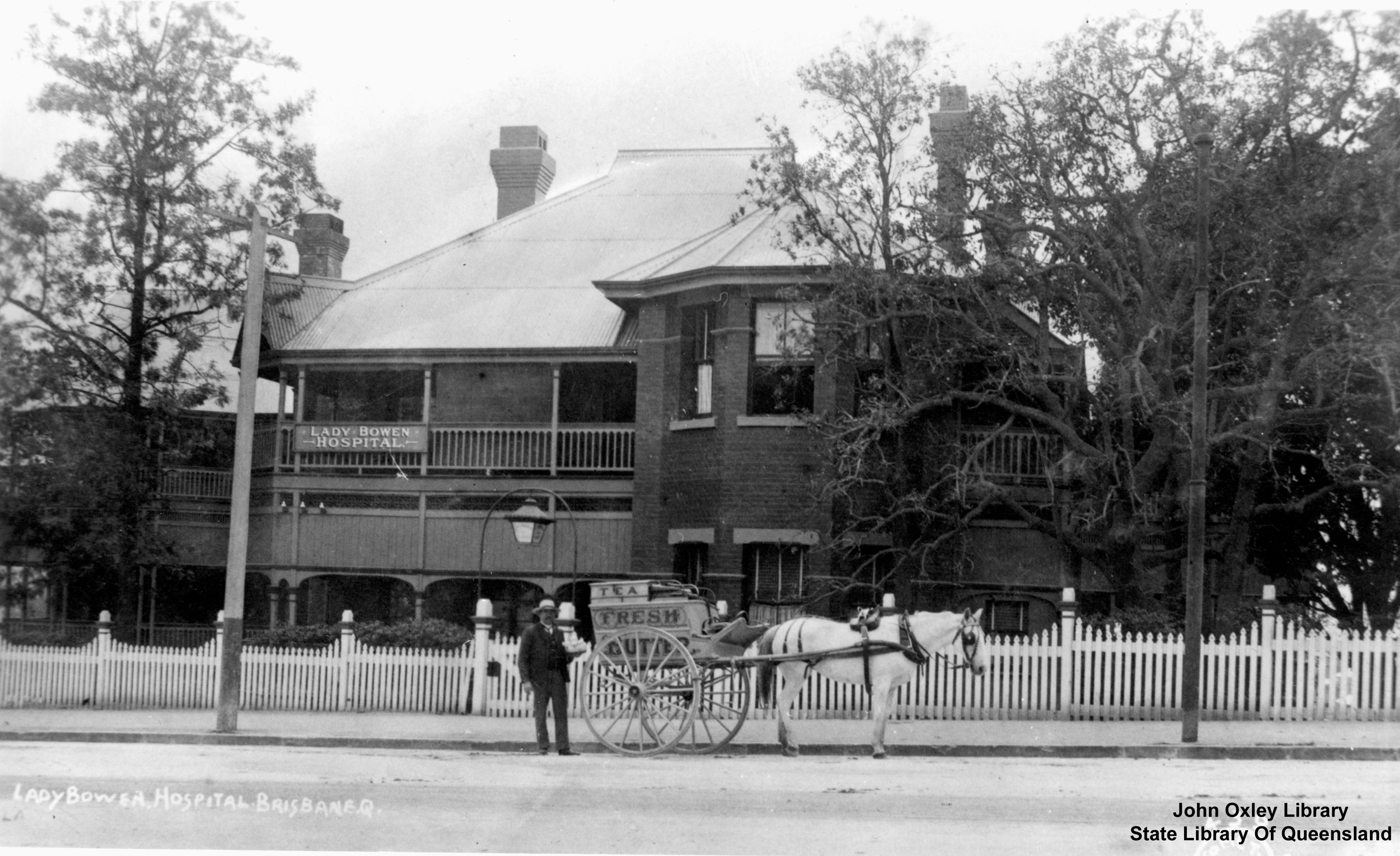 Lady Bowen Lying-In Hospital on Wickham Terrace, Brisbane. Built in 1889 to replace the original hospital in Ann Street, which was built in 1866.[1]